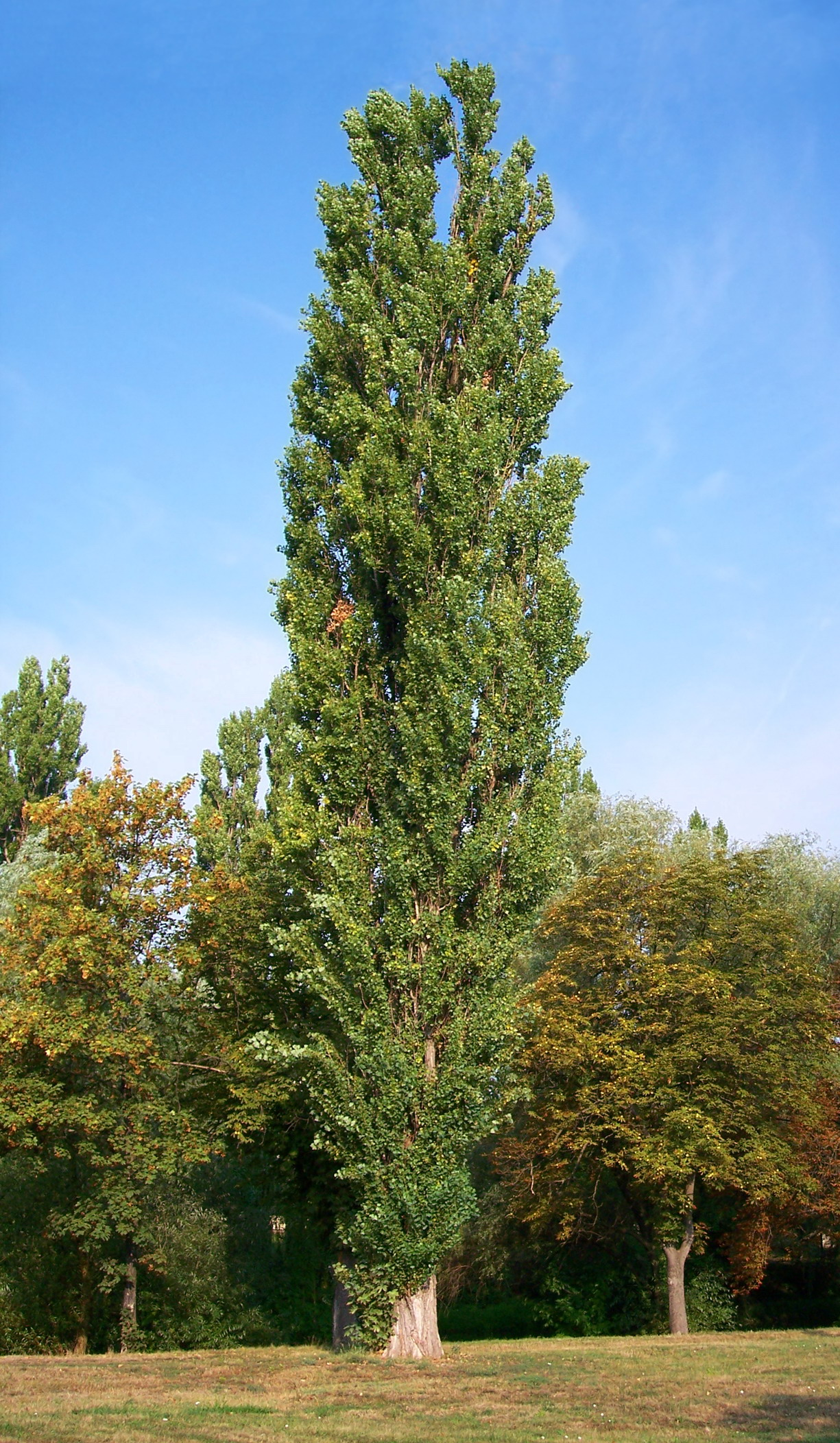 Black Poplar (Populus nigra - Plantierensis Group) in Békés town (Hungary)